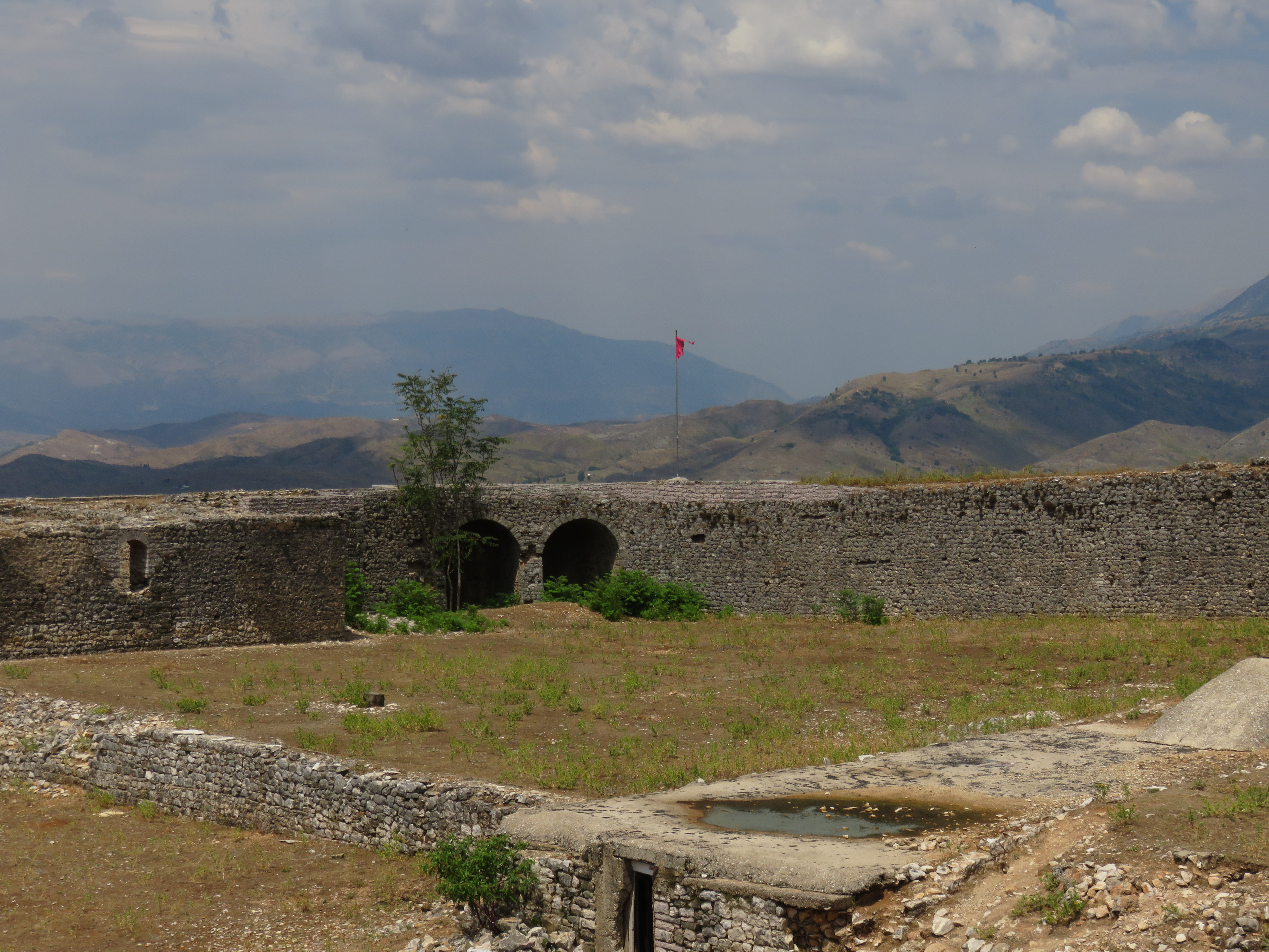 Interior of the Castle of Libohva seen from southeast corner towards northwest corner.